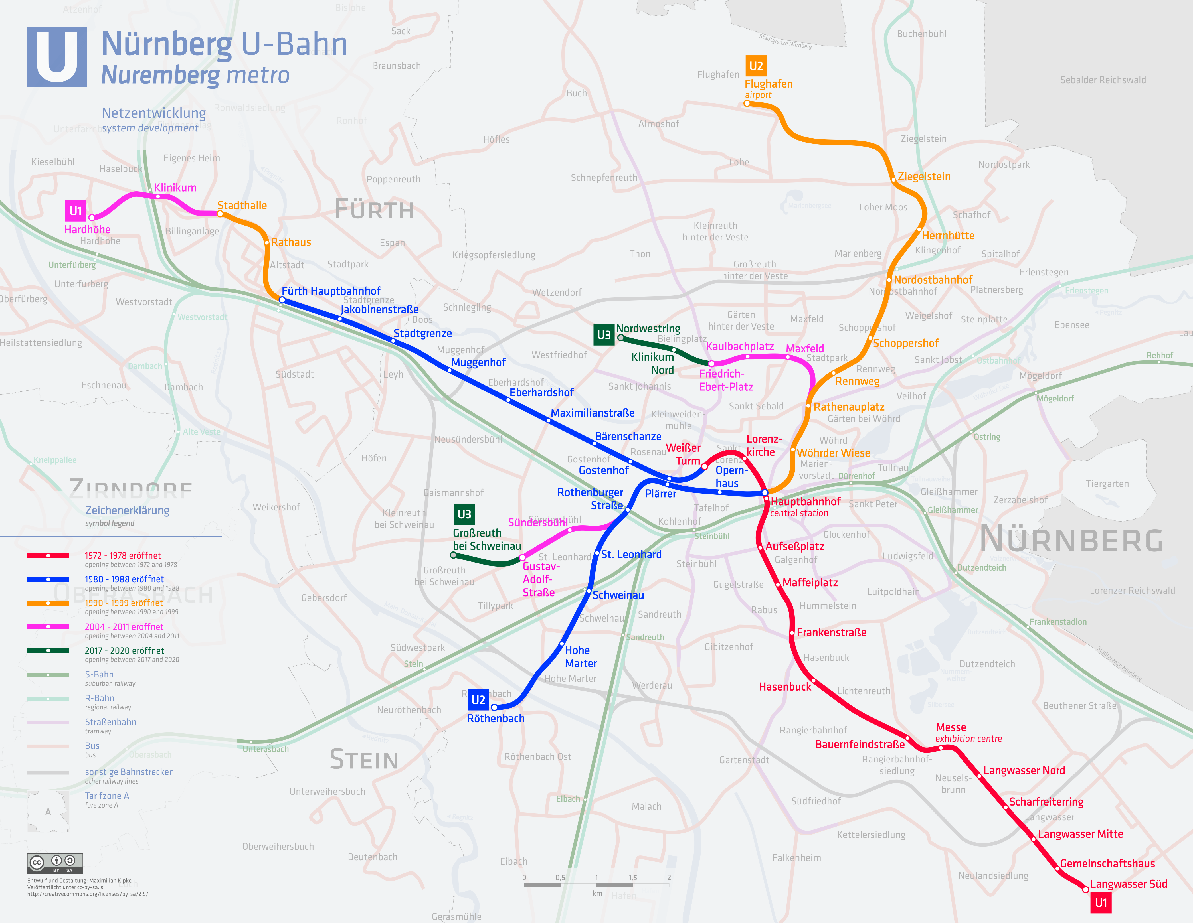 Nuremberg Metro network map, colors indicate the development of the system.